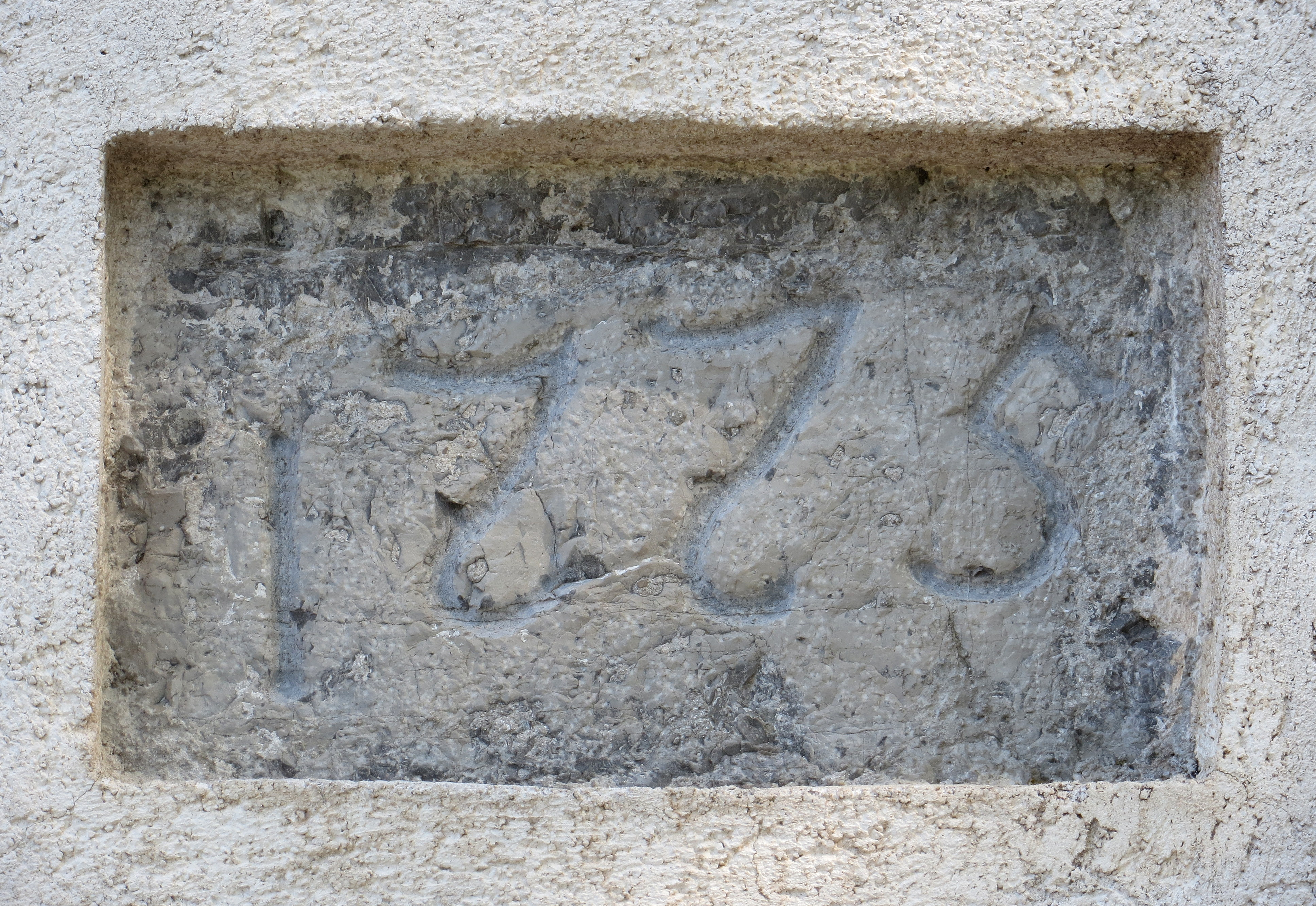 Cornerstone of the church in Brezje, Municipality of Cerknica, Slovenia, reading 1775.